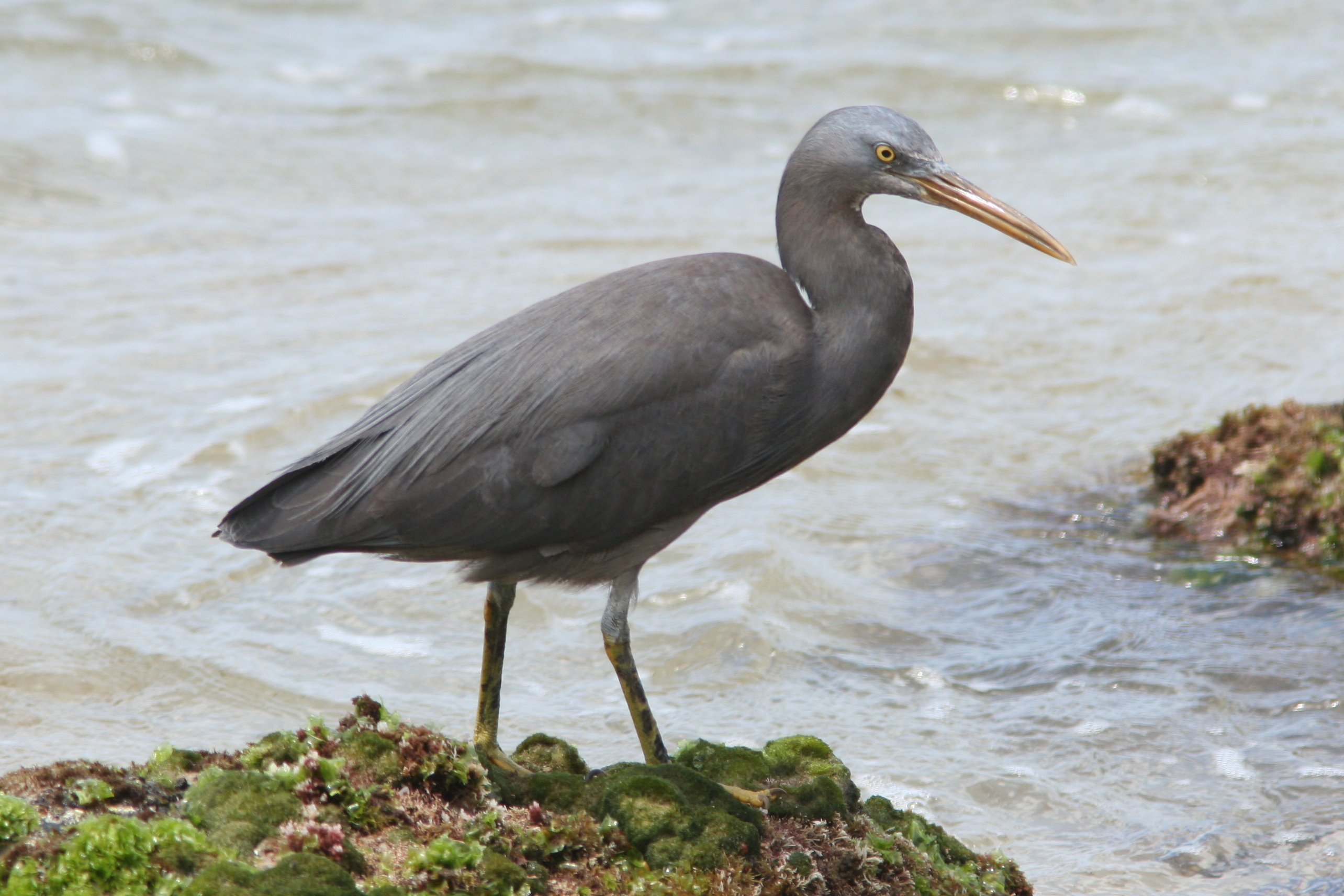 Eastern Reef Egret, Egretta sacra; wild bird